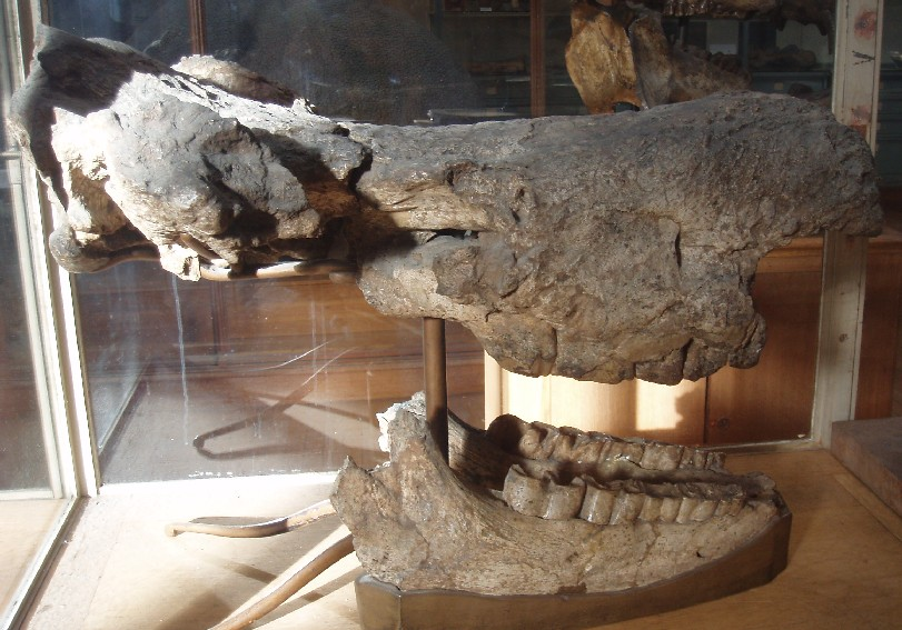 Skull of Iranotherium morgani, an early rhino